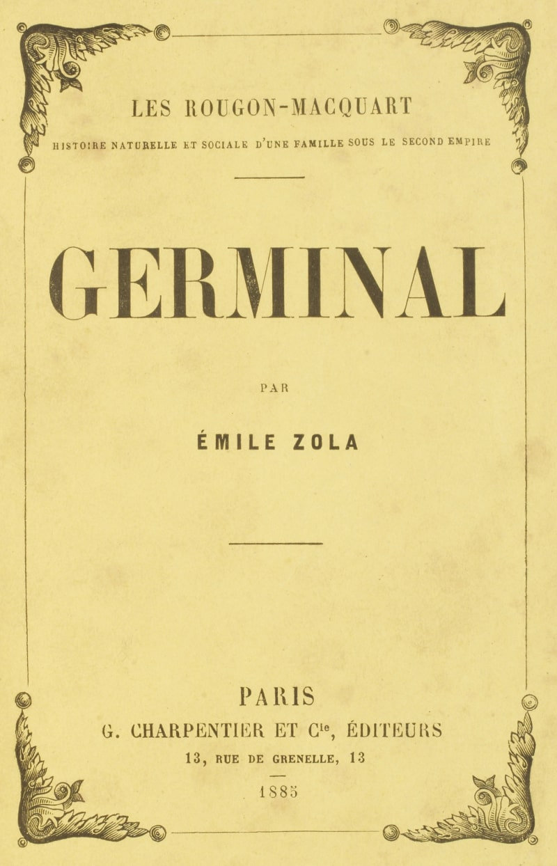 Cover, first edition of Germinal by Émile Zola